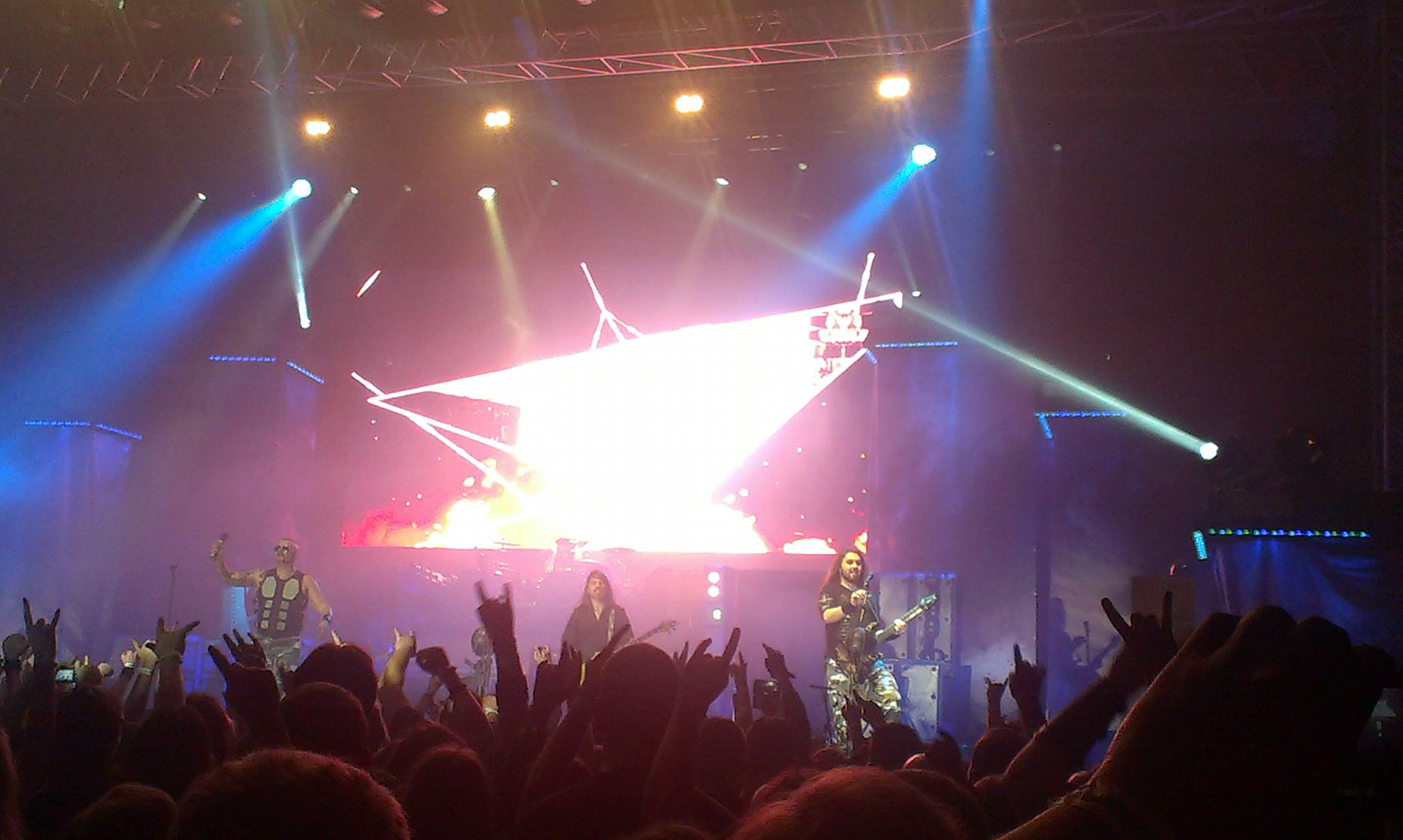 Sabaton, Prague, 4. 3. 2017